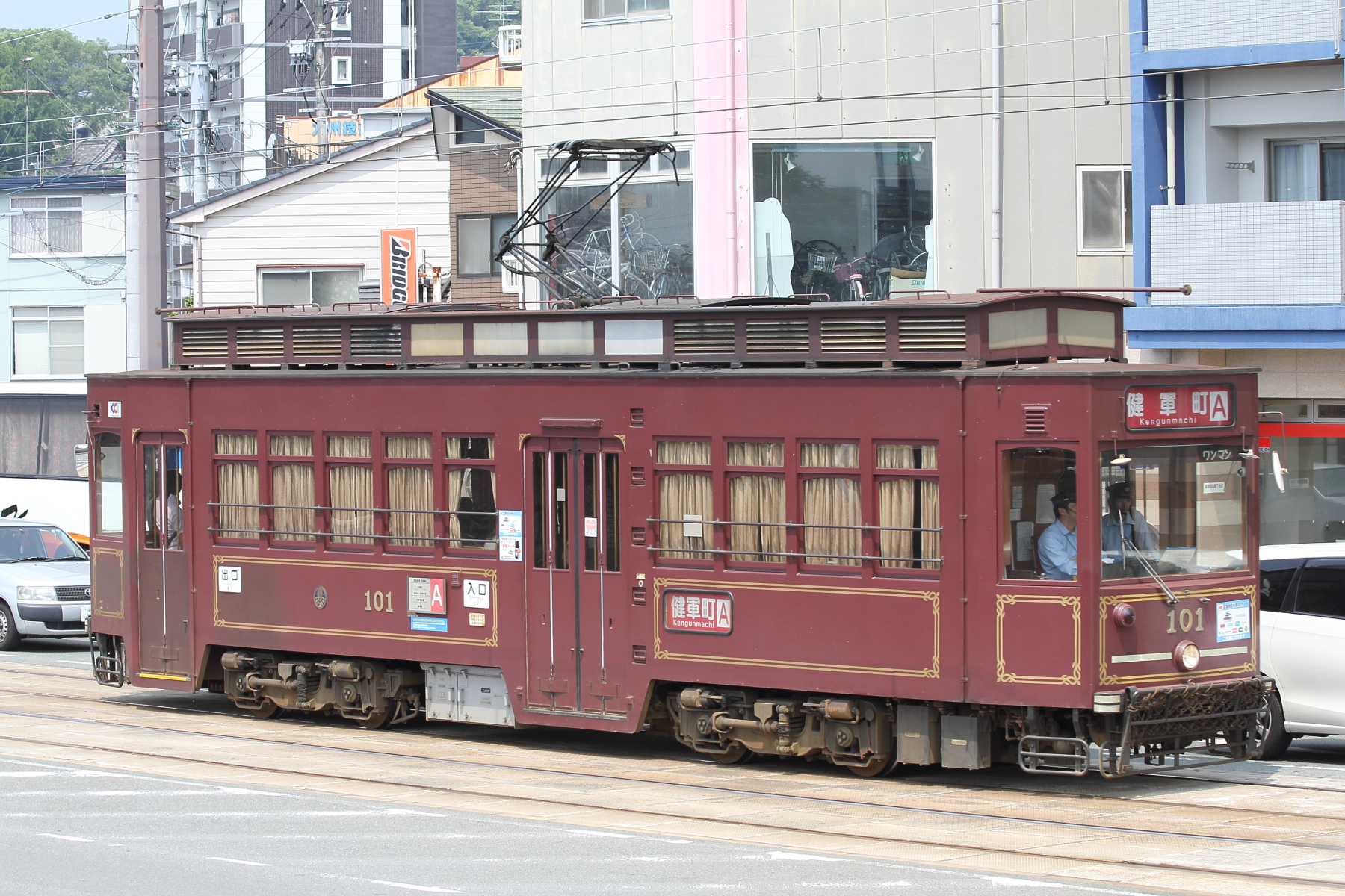 Kumamoto City tram No.101